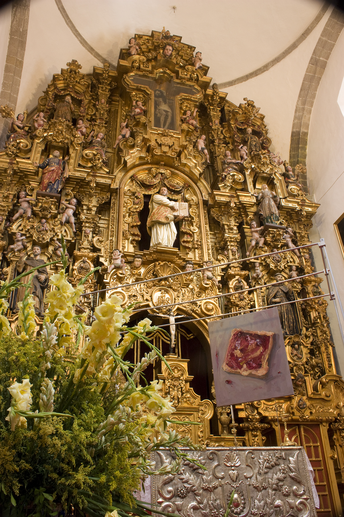 Our daily bread performance